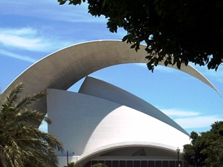 opera house 3